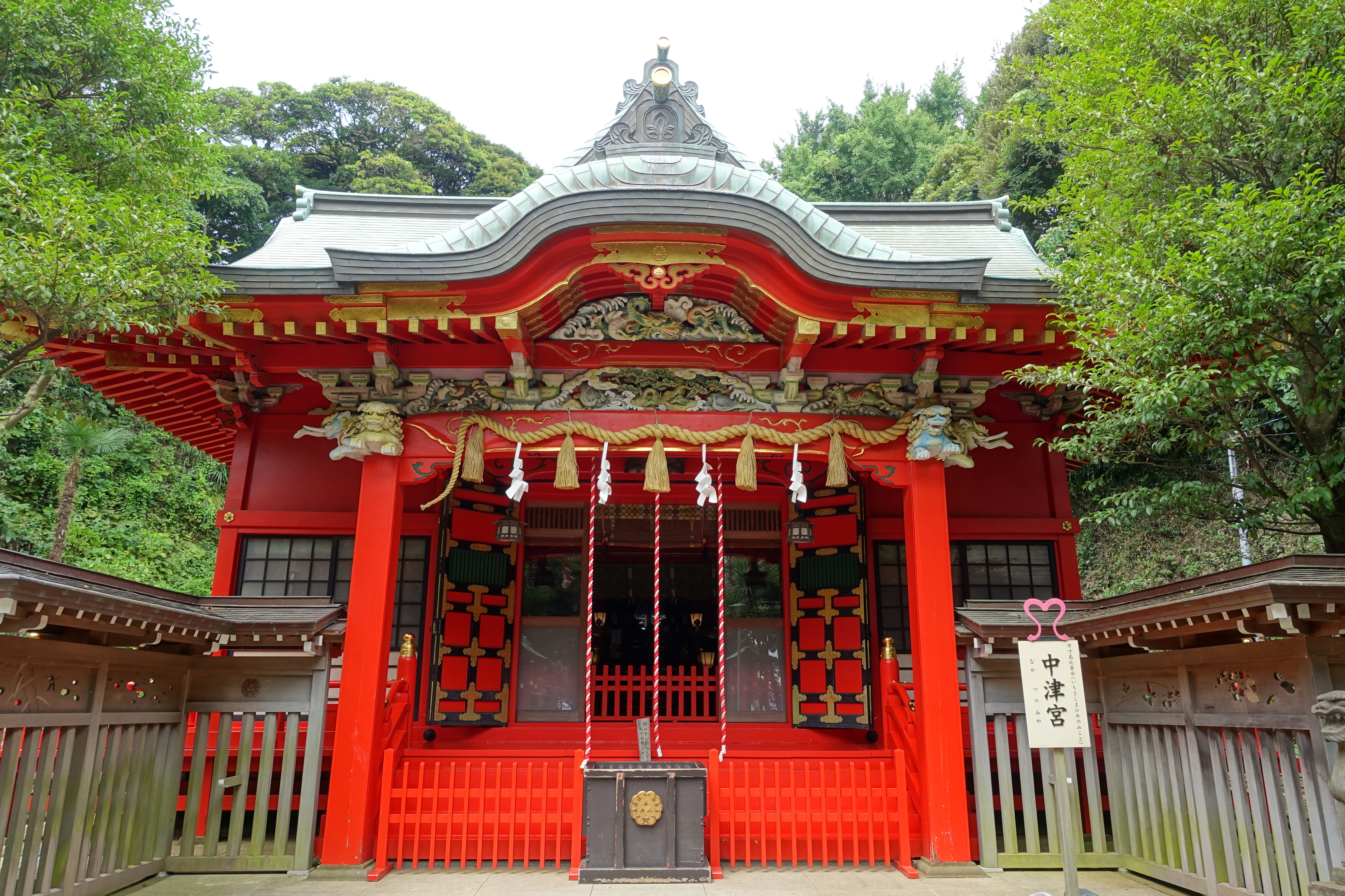 Nakatsunomiya shrine - Enoshima, Japan.